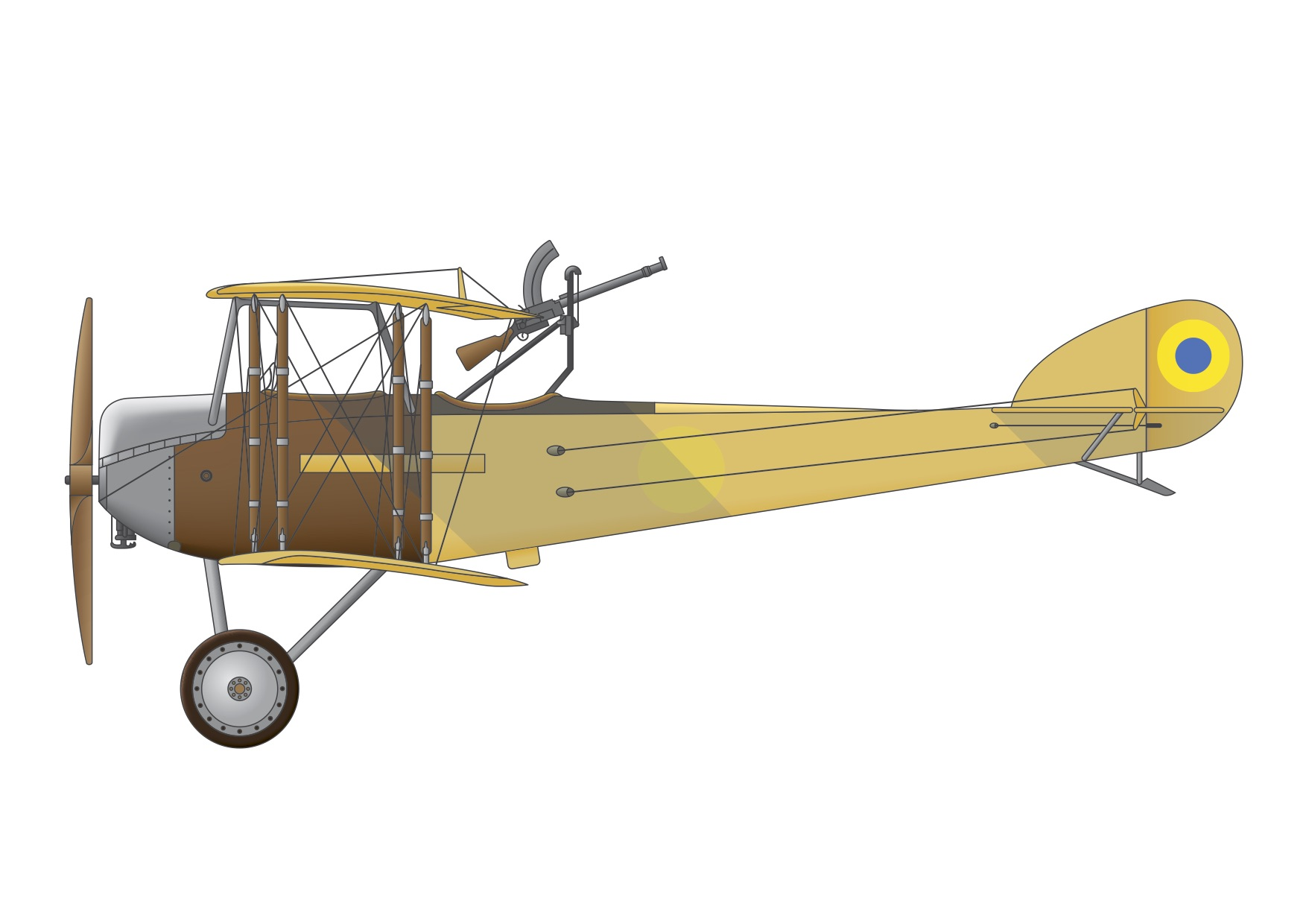 Post-Volynsli airfield, Kyiv, March-April 1918. Ukrainian People's Republic air fleet. The aircraft was built by Odessa factory. is aircraft was flown by French pilots. Note: Russian Empire roundels ob the rudder and wings sides overpainted by Ukrainian markings.